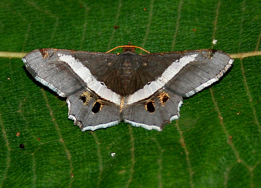 Chiasmia eleonora at Ananthagiri Hills, in Rangareddy district of Andhra Pradesh, India.